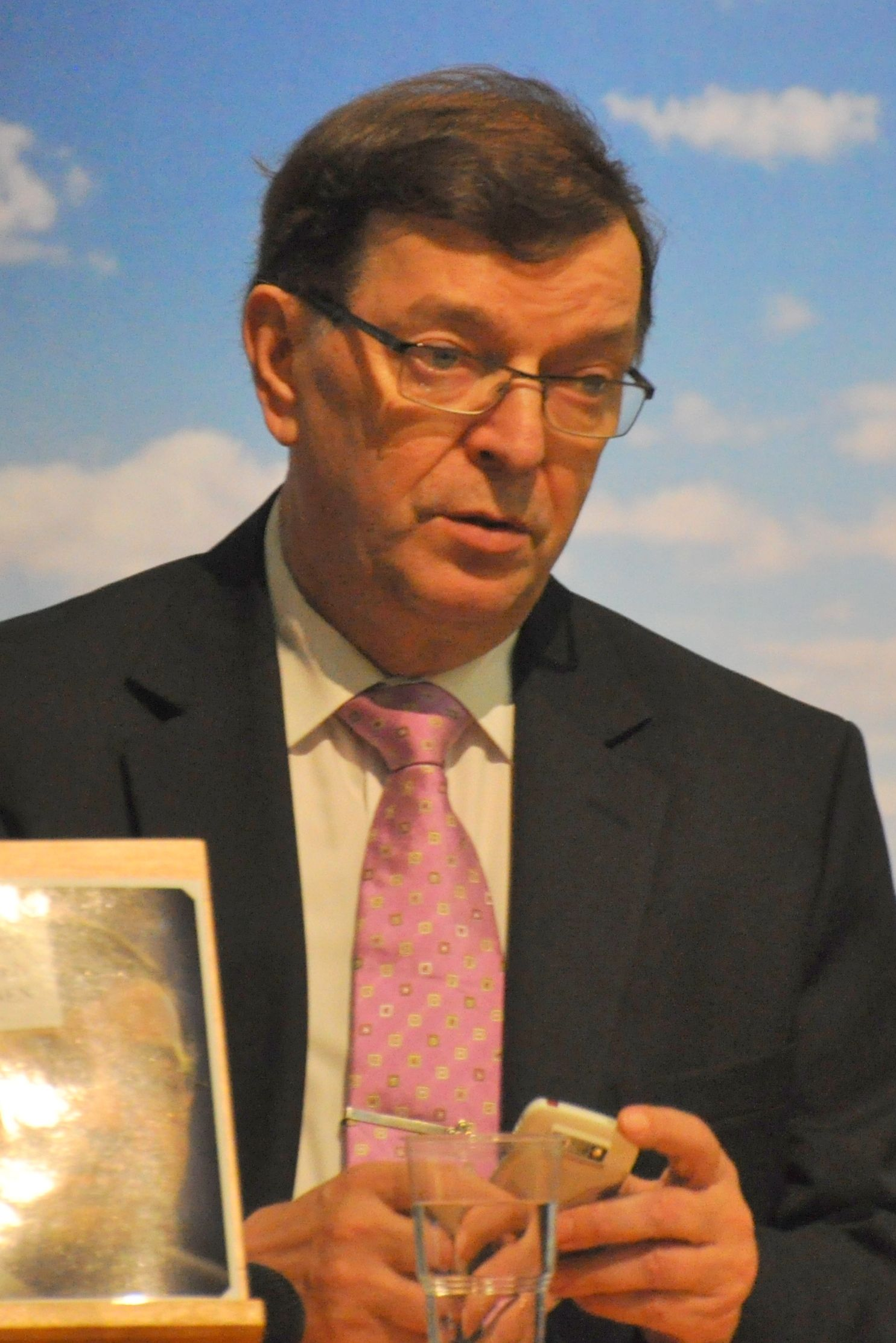 Cropped 2:3 version of File:Paavo Väyrynen.jpg